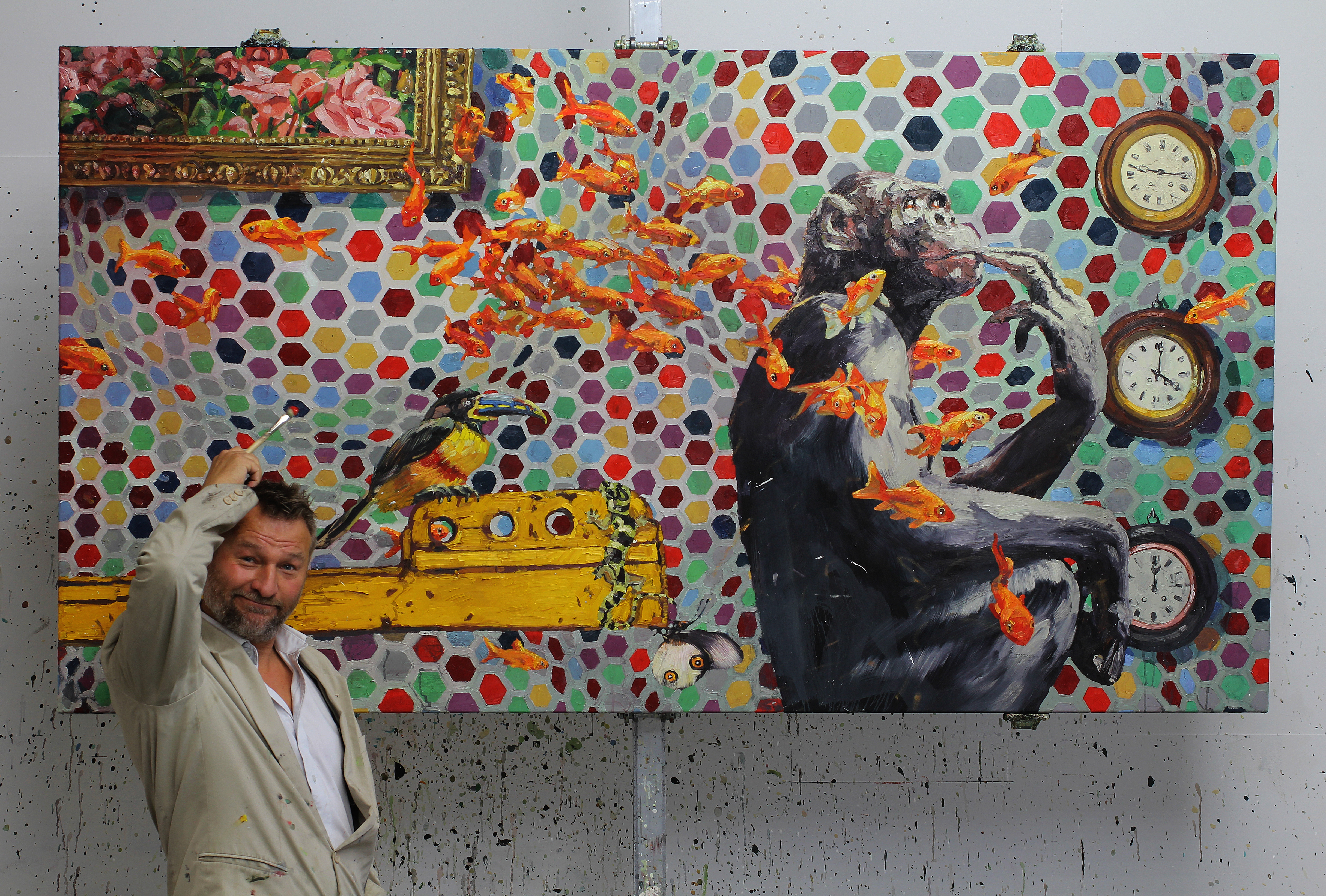 The painting (oil on canvas) "African time" by the Norwegian painter Tor-Arne Moen. Size:120x220 cm